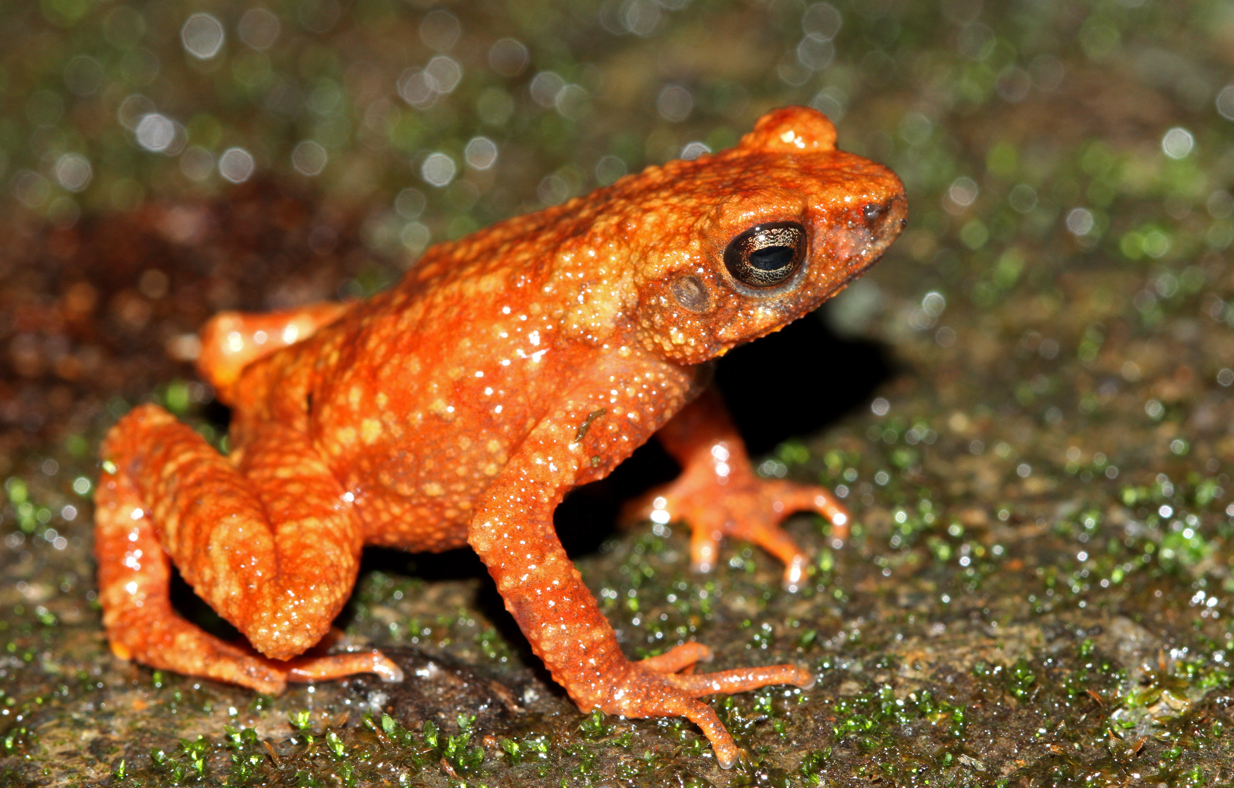 Ghatophryne rubigina